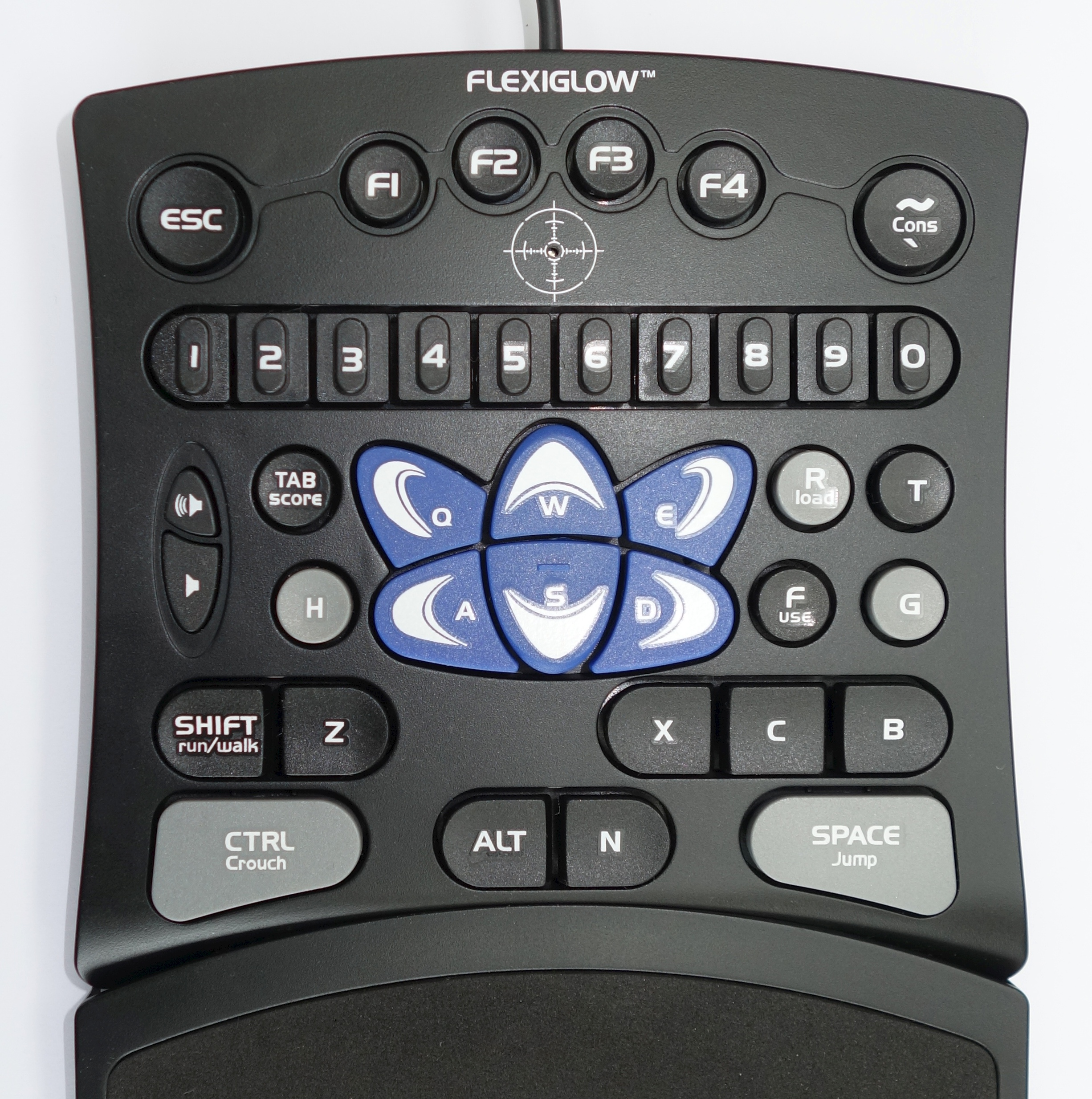 A single handed keyboard which shows only a selection of the keys being present on a standard computing keyboard, intended for gamers who use one hand on the left half of a standard keyboard (thus accessing only keys from there) and the other hand on the mouse. Labelled "CyberSnipa FLEXIGLOW", manufactured 2008.